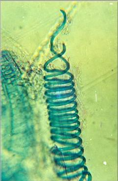 Ficus vessel